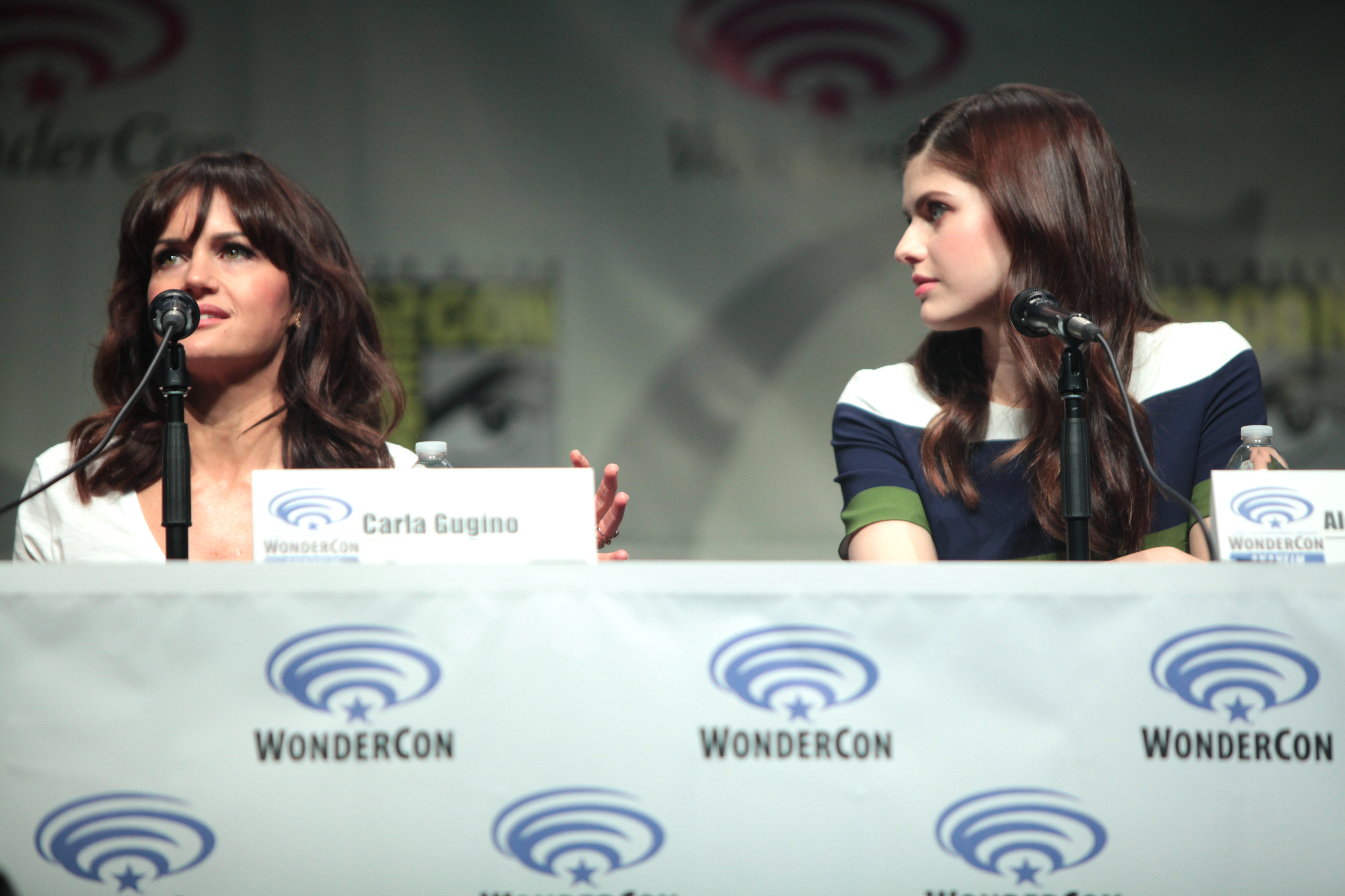 Carla Gugino and Alexandra Daddario speaking at the 2015 Wondercon, for "San Andreas", at the Anaheim Convention Center in Anaheim, California.